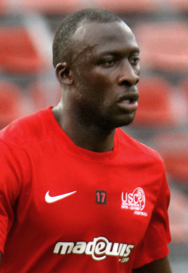 Créteil vs Châteauroux, 8th August 2014.